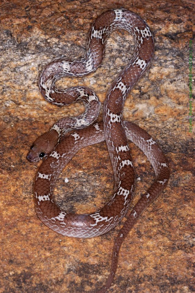 Lycodon aulicus snake, Bannerghatta, India